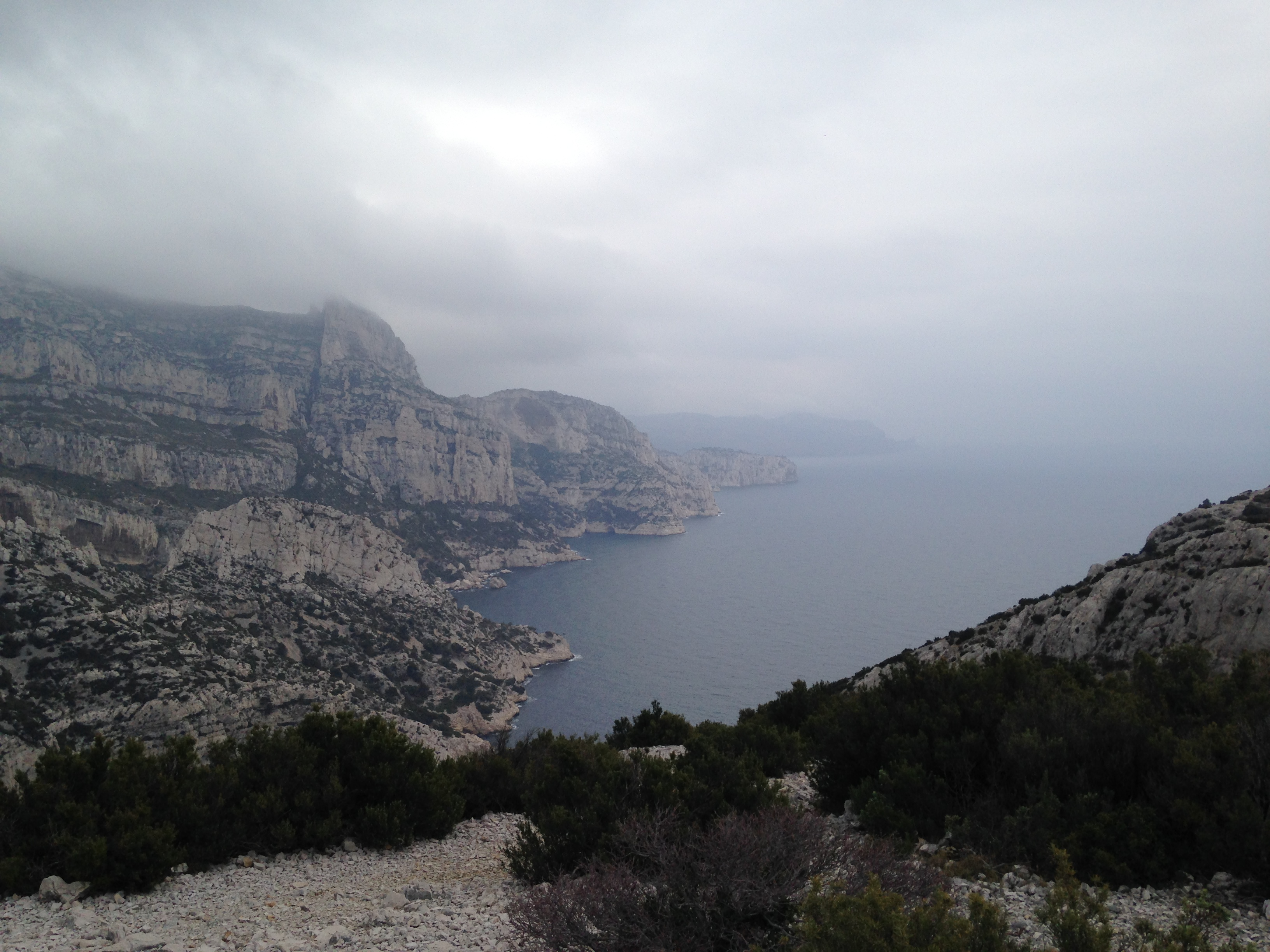 The Calanques of Marseille